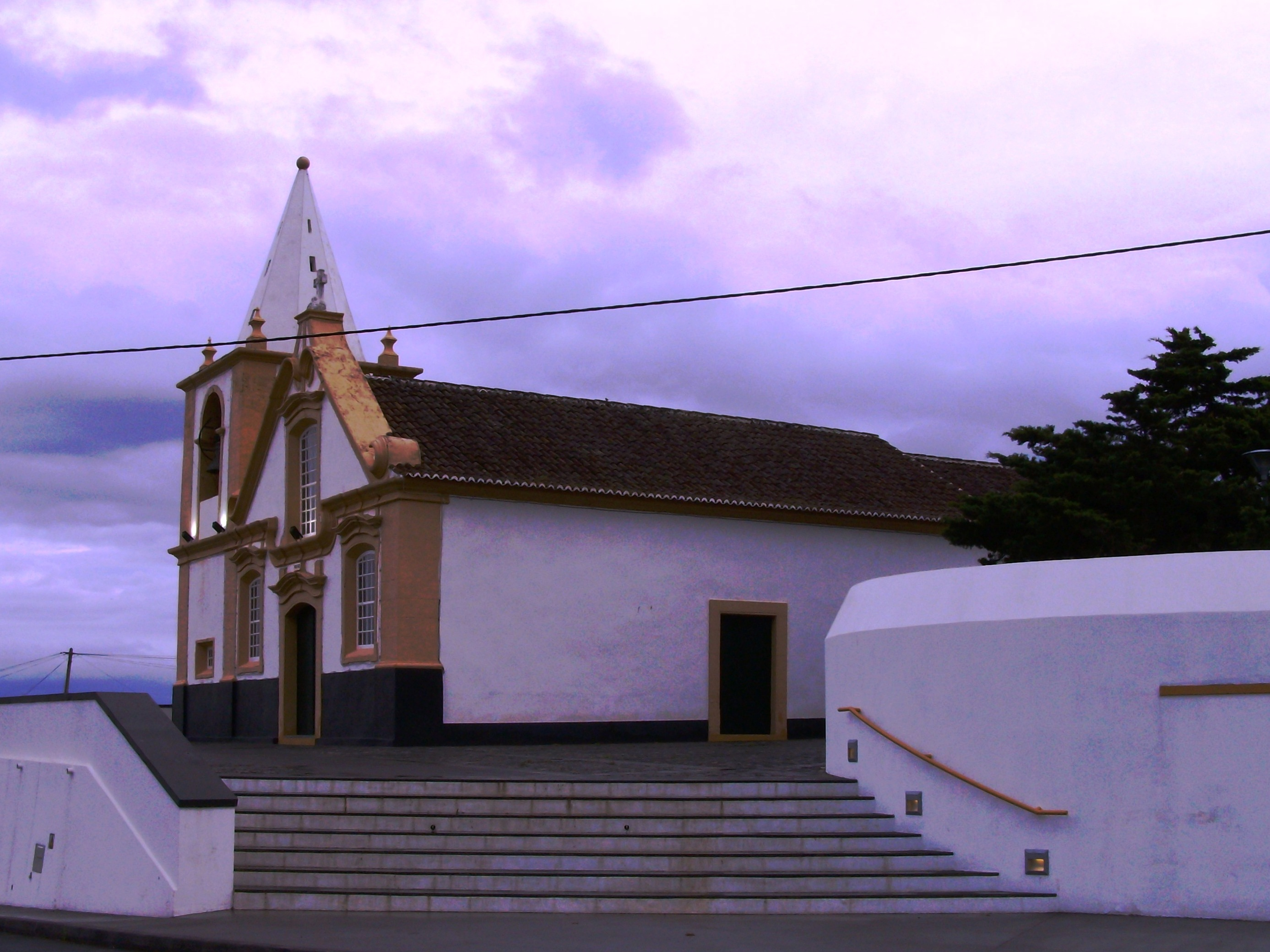 Twilight near the Church of Santa Beatriz, Quatro Ribeiras, Praia da Vitória, Terceira (Azores), Portugal